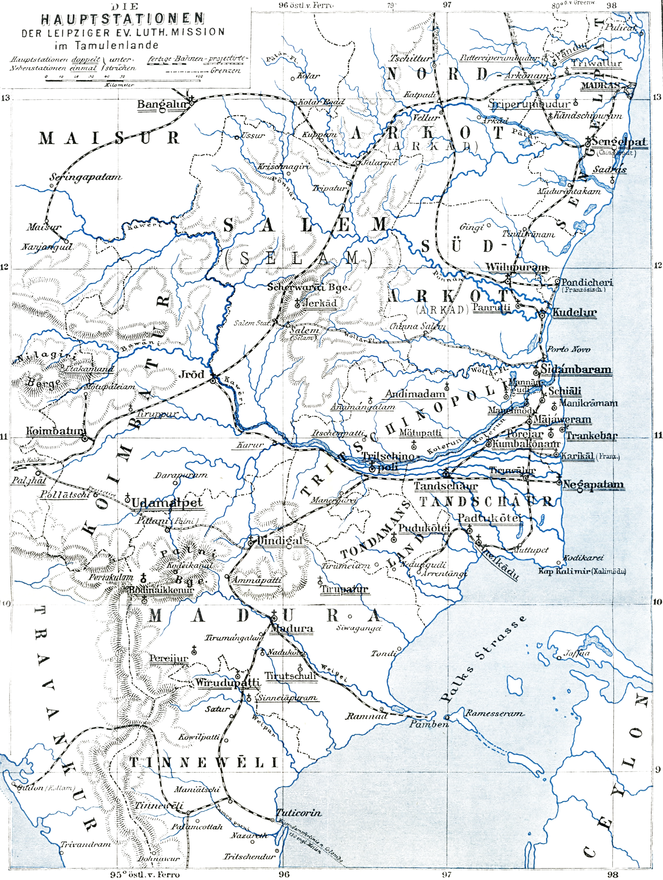 Field of work by the Missionary society "Evangelisch-lutherisches Missionswerk Leipzig" 1914 in Tamil Nadu.